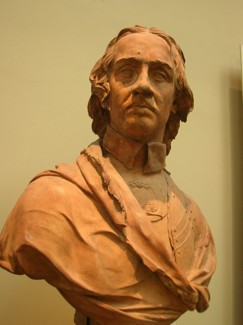 Oliver Cromwell bust, British Museum, Great Russell Street WC1 Oliver Cromwell (1599-1658) - Soldier and politician. Lord Protector 1653-8